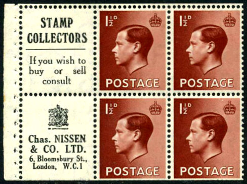 British 1936 KEVIII 1½d stamp booklet advertising pane